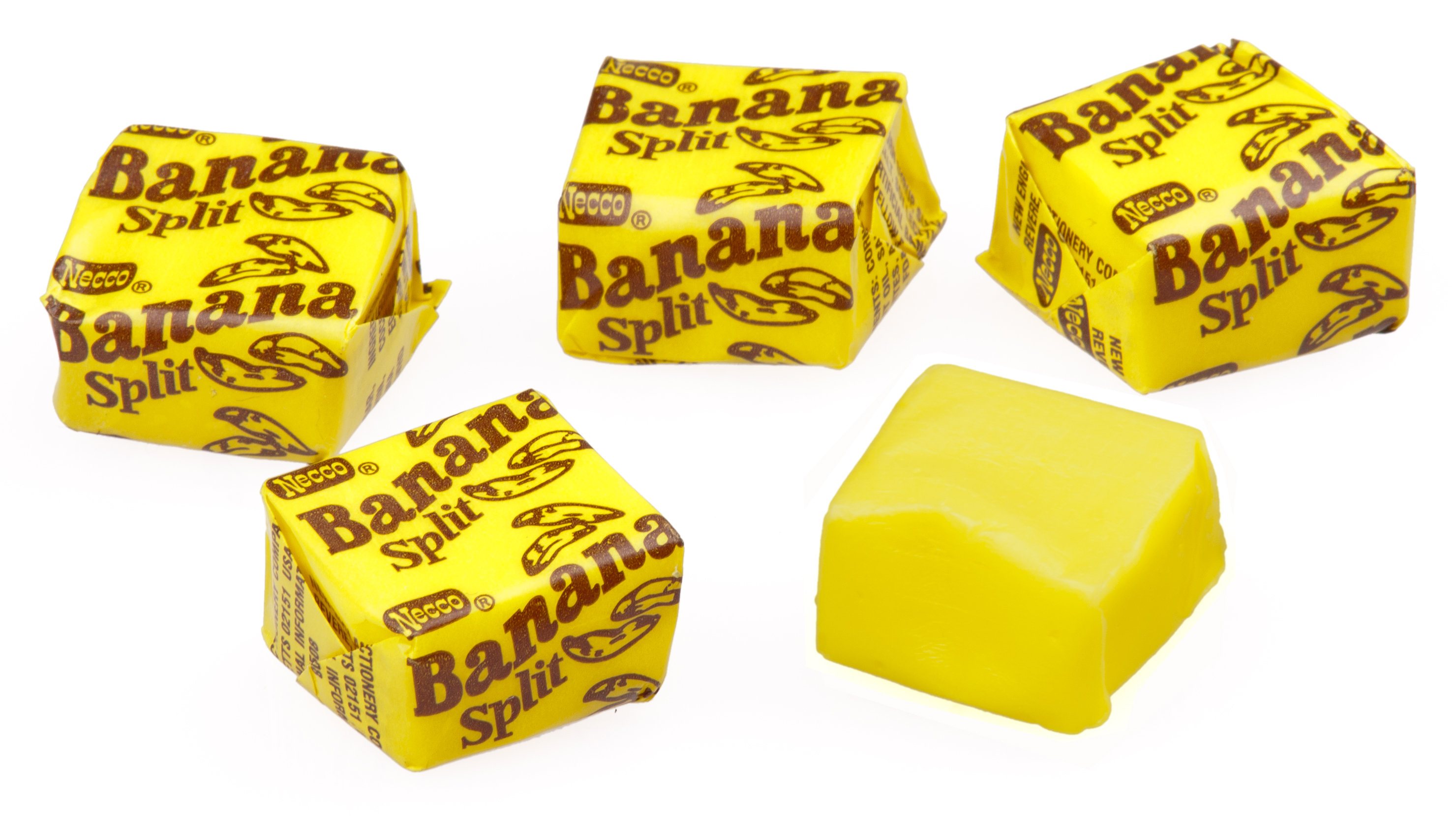 Necco Banana Split candies.